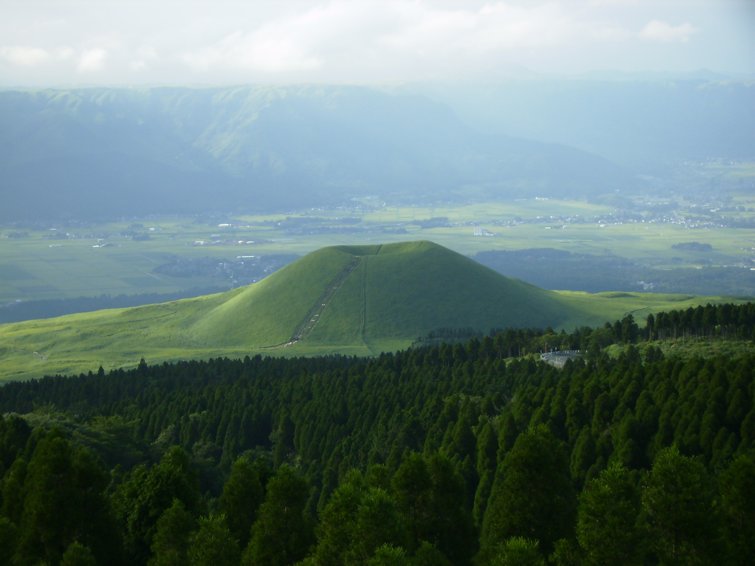 Komezuka, literally "rice mound", in the Aso Caldera, Kumamoto, Japan